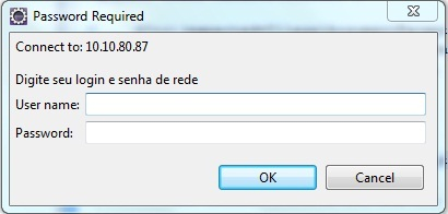 Password Required on Eclipse IDE